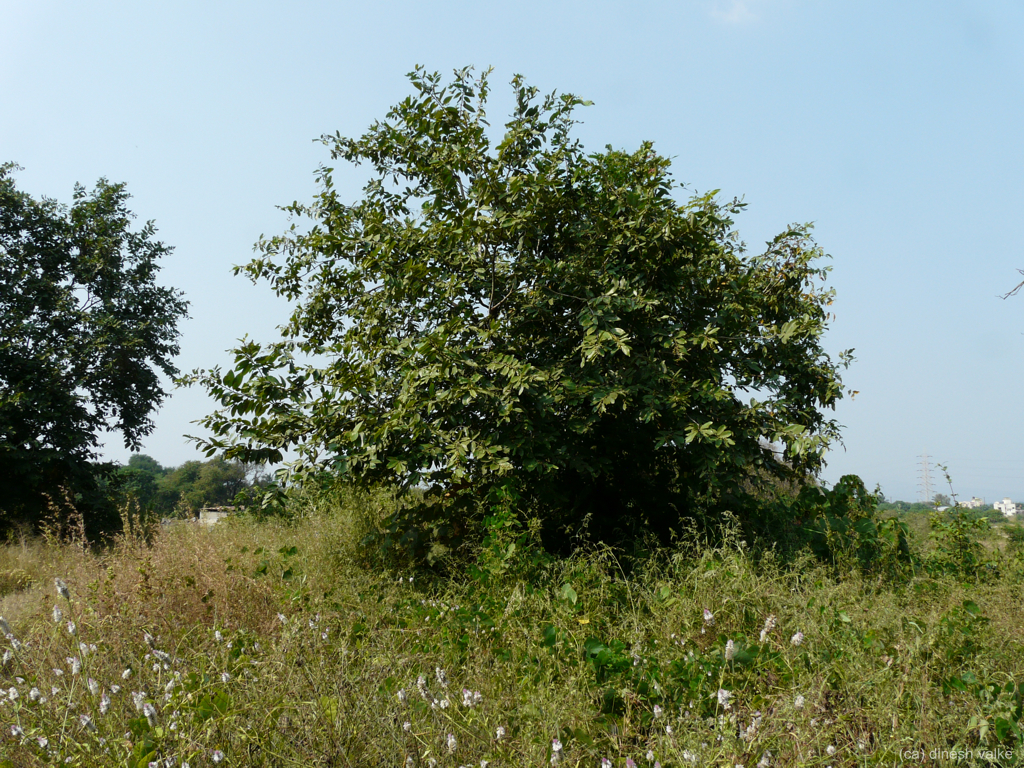 Euphorbiaceae (castor, euphorbia, or spurge family) » Bridelia retusa bree-DAY-lee-uh -- named for the Swiss botanist Samuel Elisée von Bridel (1761-1828) re-TOO-suh -- meaning, rounded and notched tip commonly known as: spinous kino tree • Assamese: কহিব, kuhir • Bengali: geio •